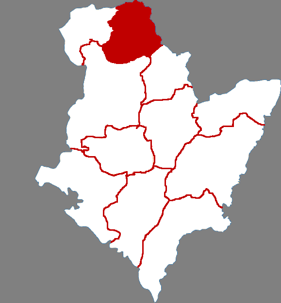 Location of Raoyang county in Hengshui City, China